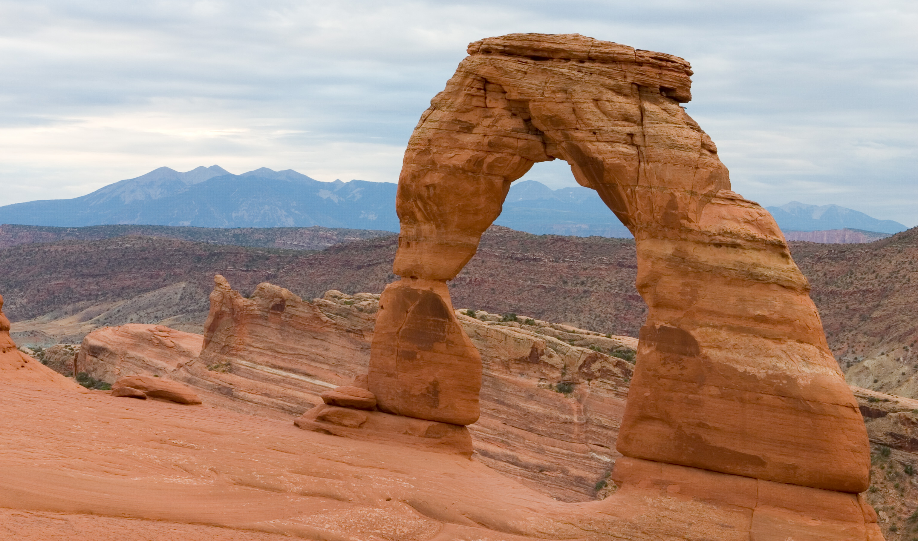 Delicate Arch, located at Arches National Park in Moab, Utah. The La Sal Mountains are in the background. Site